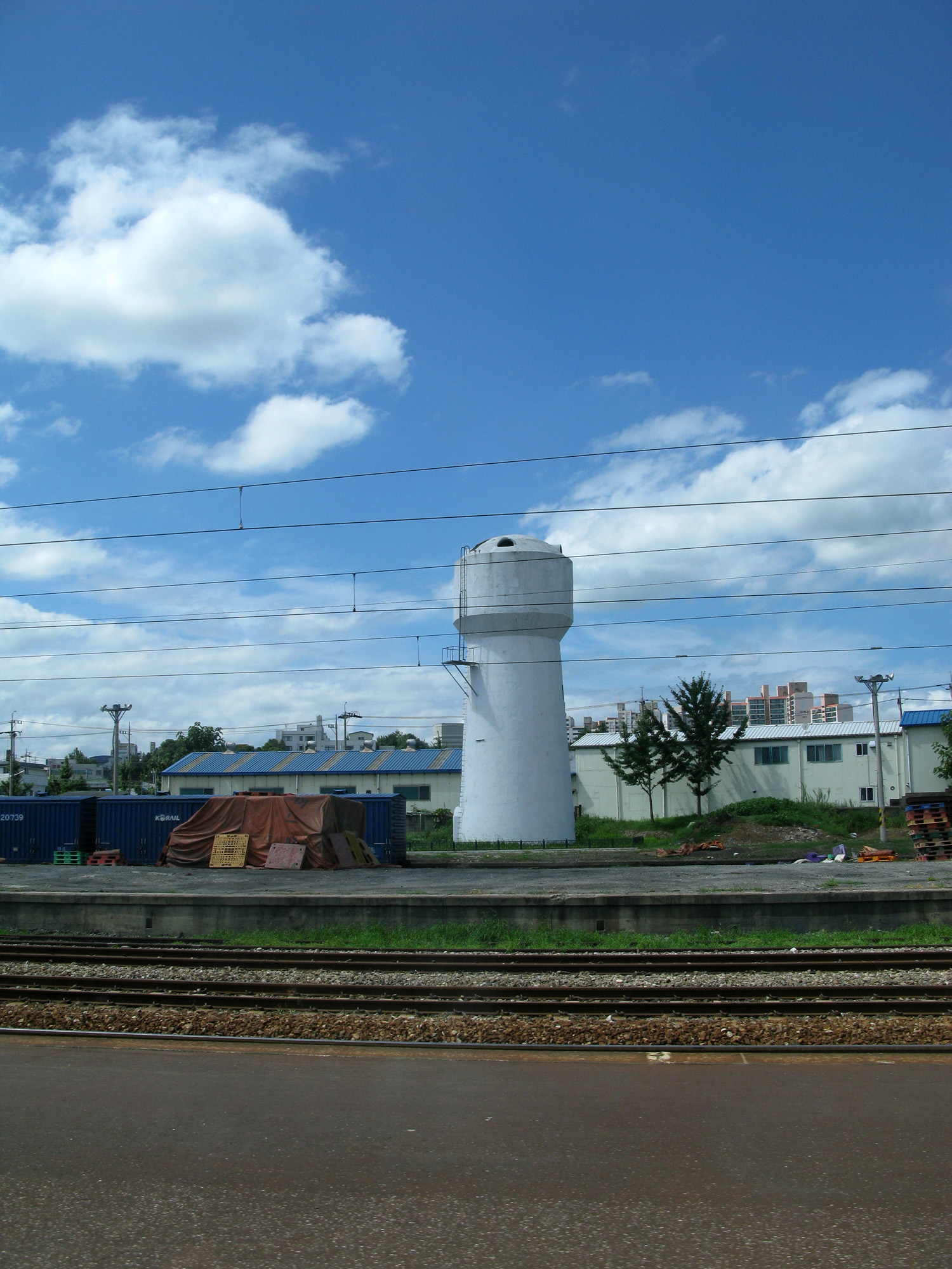 Jungang Line Wonju Station Water tower